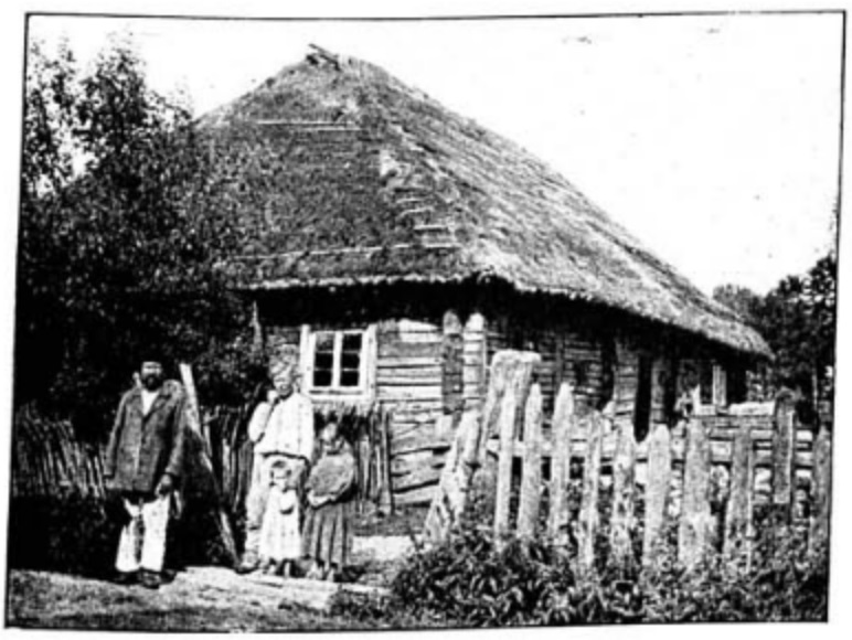 Peasant hut from the Imenin village (near Kobryn, currently in Belarus). Photo by N. G. Neverovich, published in 1907